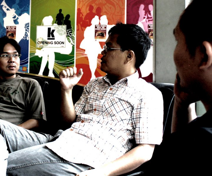 Three Indonesian males, seated and engaged in discussion